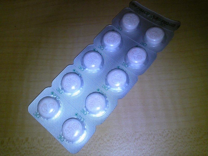 Tablet of Lansoprazole (Takepron OD) 30mg.